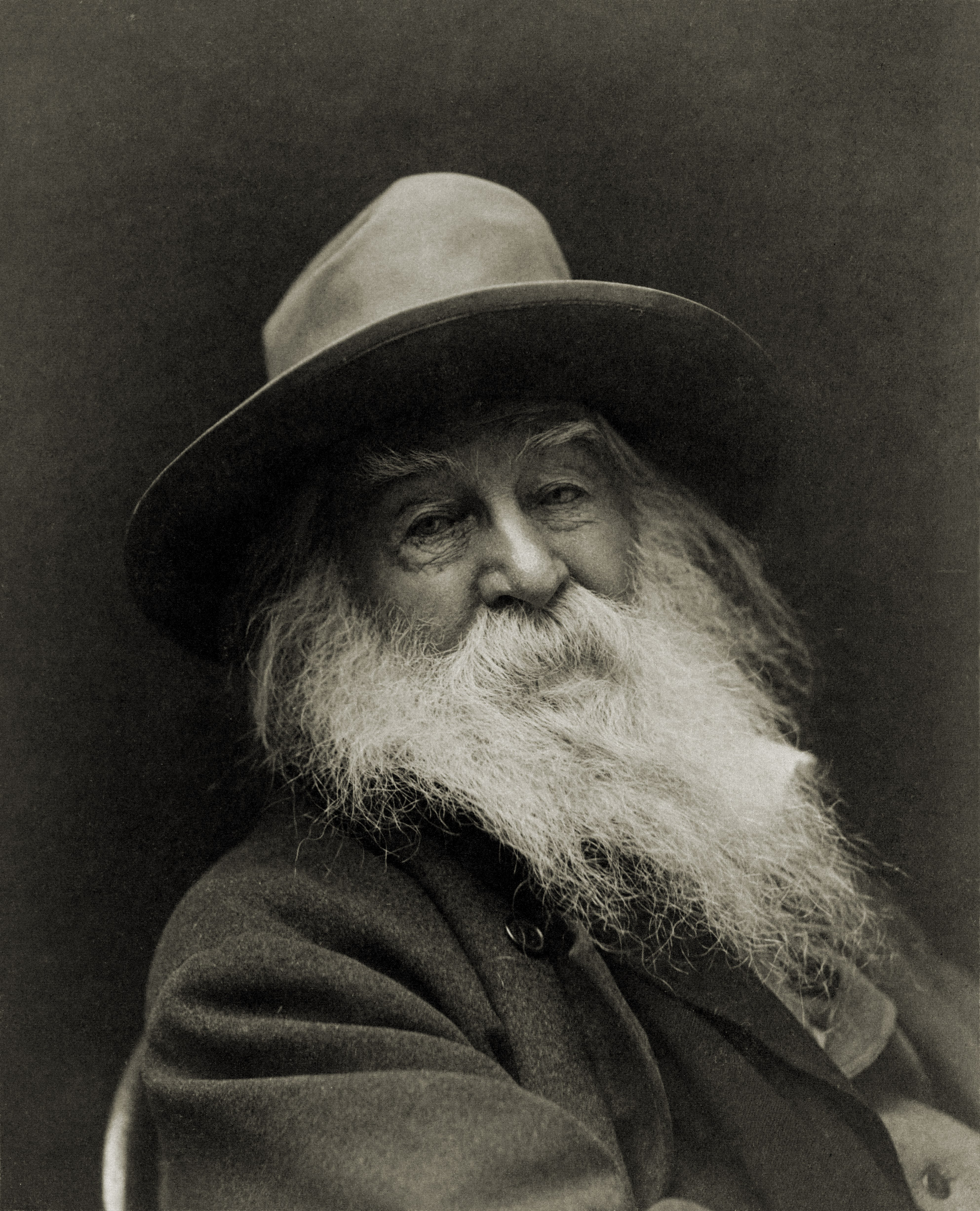 The Laughing Philosopher: American poet Walt Whitman (1819–92)[1] This image was made in 1887 in New York, by photographer George C. Cox. The image is said to have been Whitman's favorite from the photo-session; Cox published about seven images for Whitman, who so admired this image that he even sent a copy to the poet Tennyson in England. Whitman sold the other copies.[2] Currently vended commercially, in a format suitable for magazine & book reproduction, by picture library Corbis. The image was apparently originally in the collection of Charles E. Feinberg, and then entered the collection of the New York Museum of Modern Art under curator John Szarkowski.